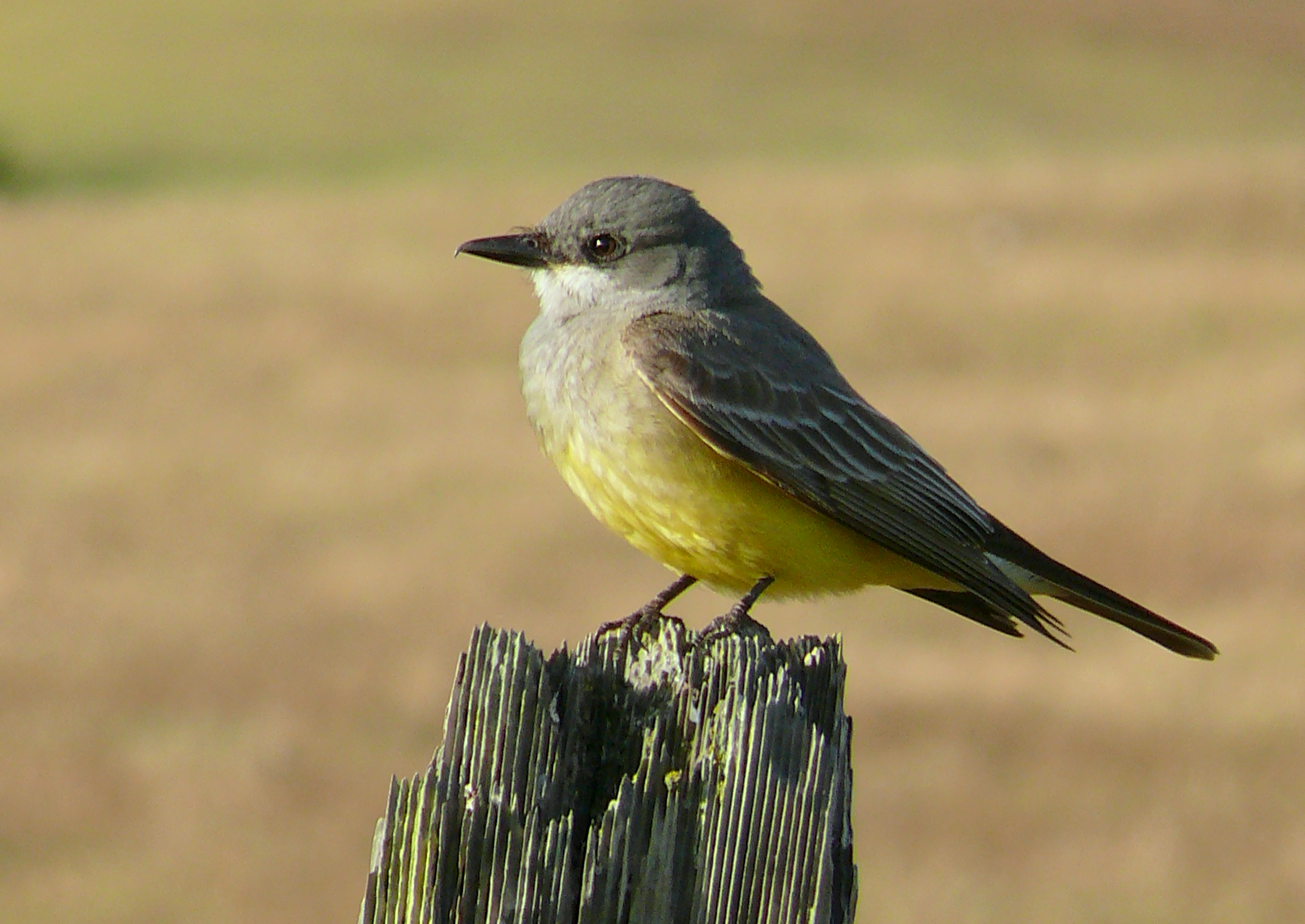 Tyrannus verticalis Western Kingbird - Explore #38 5-13-09